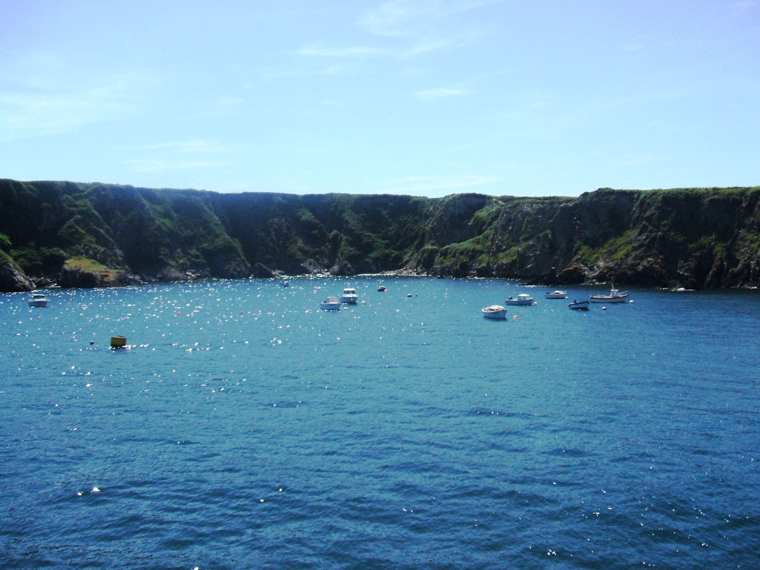 Ushant